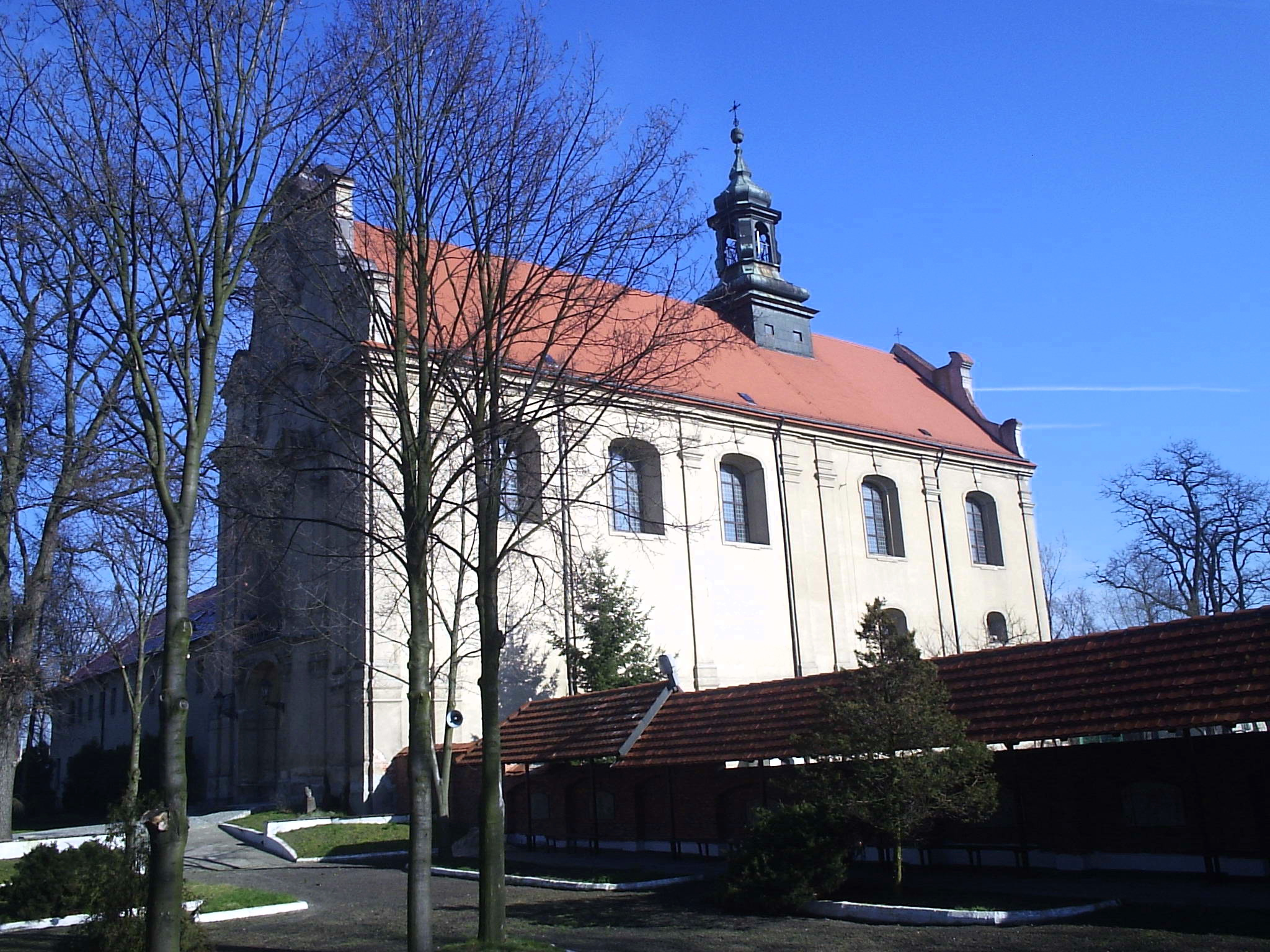 Church in Osieczna, Poland